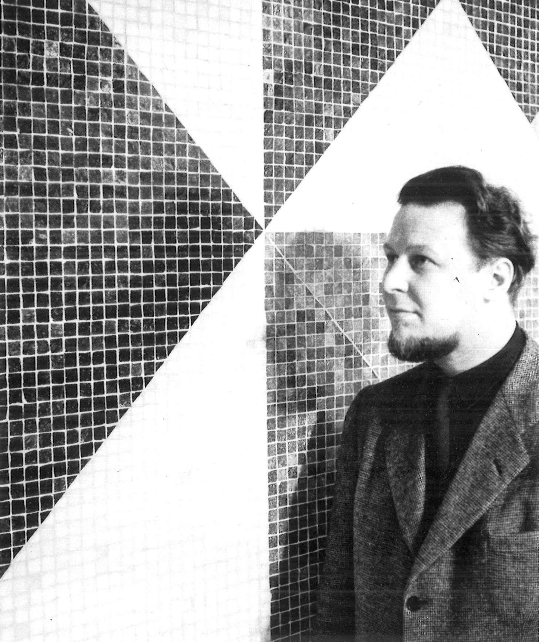 Photograph of the Finnish artist Lars-Gunnar Nordström (1924–2014).